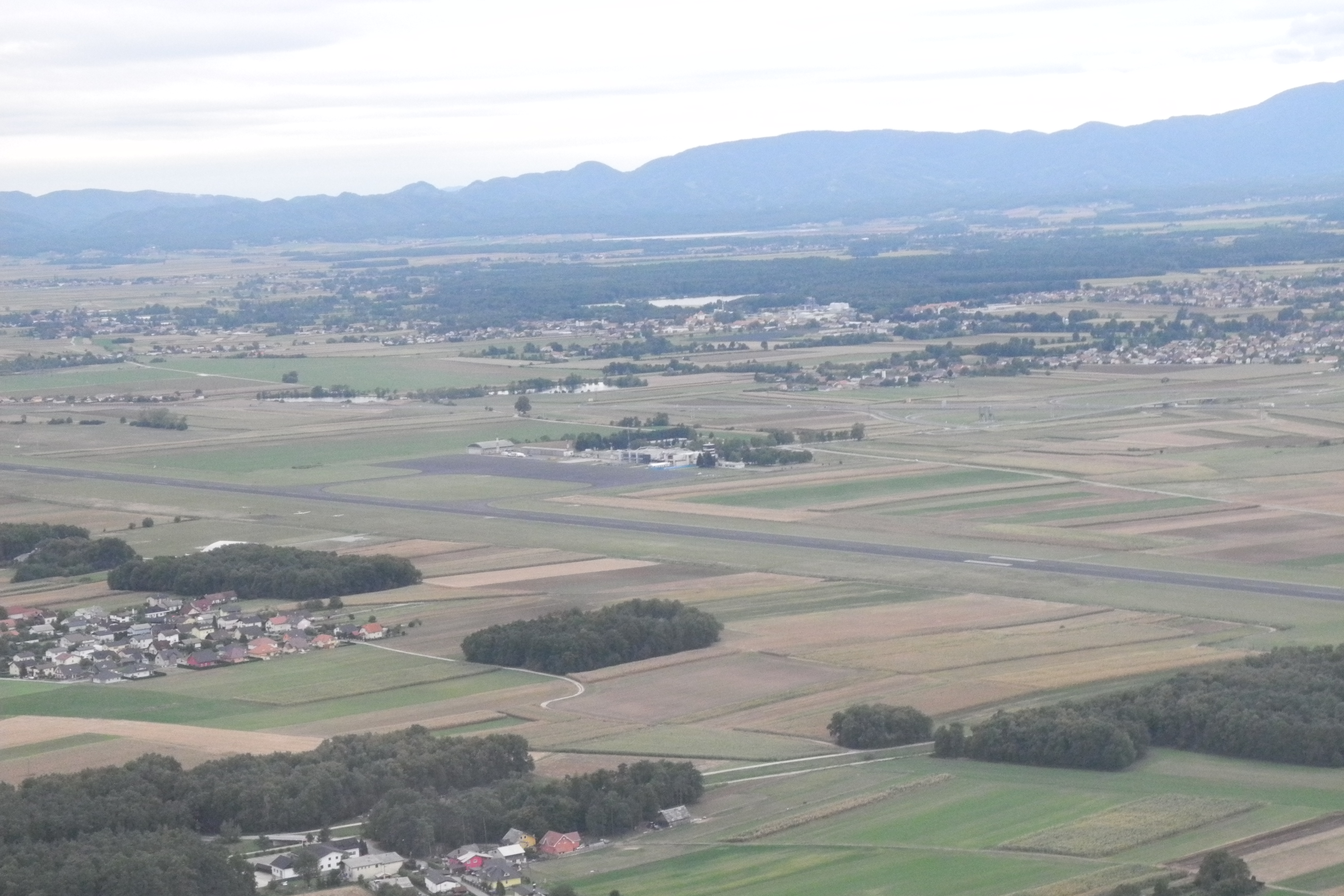 Maribor Airport